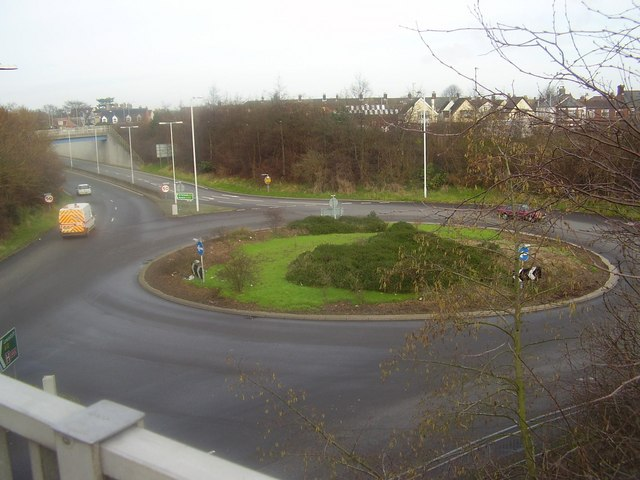 Gorleston roundabout and site of Gorleston on sea railway station Gorleston bypass, built on some of the formation of the former line from Lowestoft to Great Yarmouth. The line closed in 1970 and the station site had the roundabout built ontop. The station was jointly owned by the part owned by the M&GNJR.